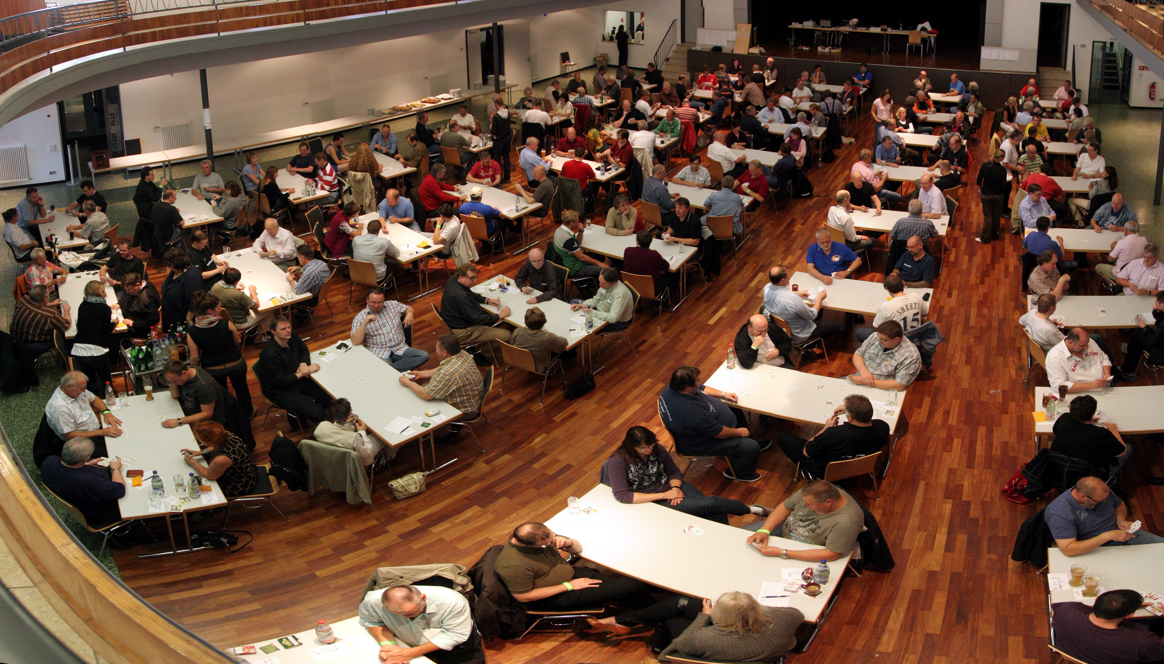 The 30th German Doppelkopf Masters in Darmstadt (Hesse), venue: Groß-Gerau, City Hall. Image made by stitching 4 single images with Hugin.